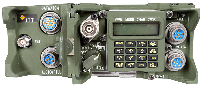 The front of the Exelis SINCGARS RT-1523F with SideHat® attached